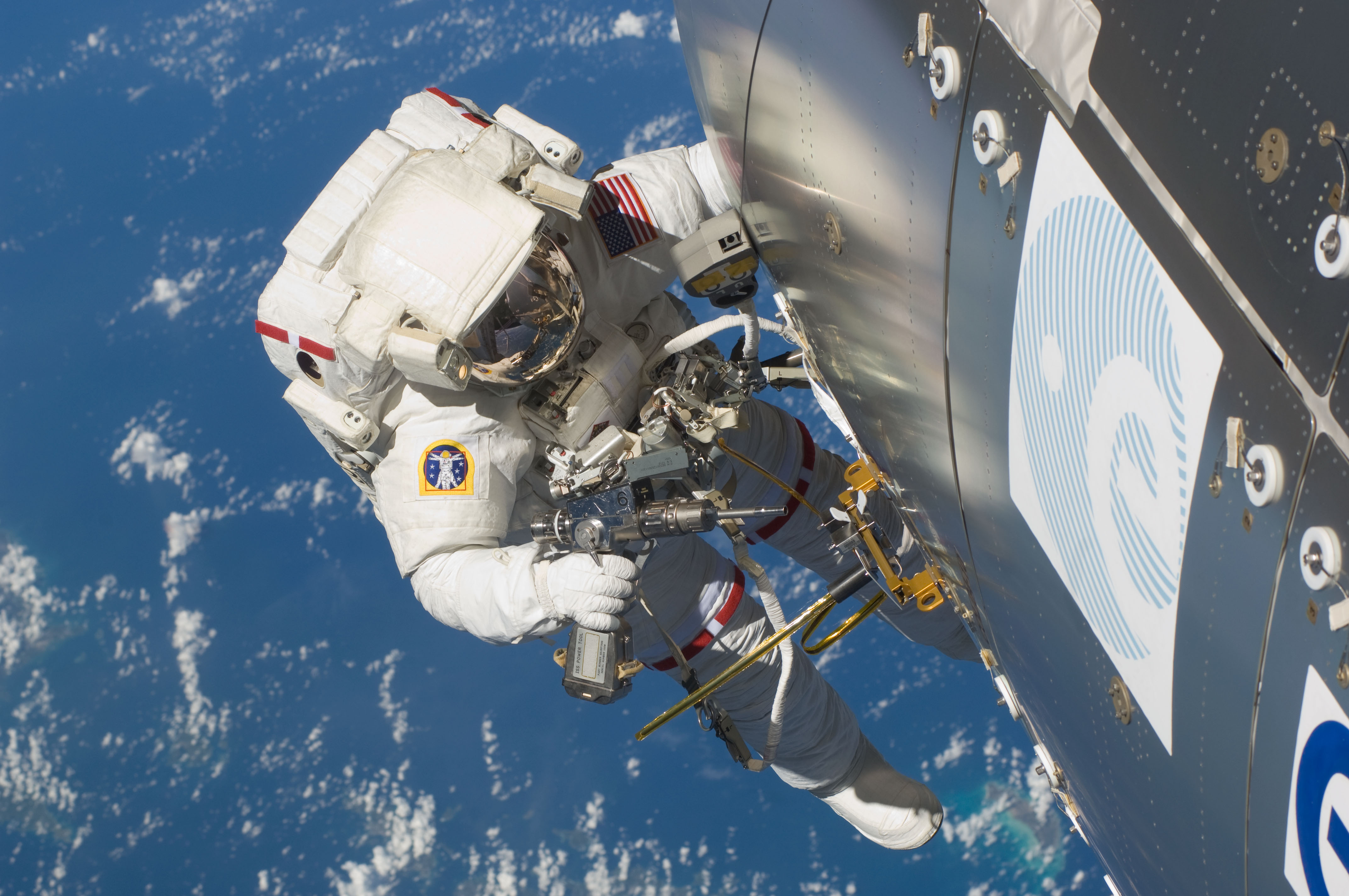 Astronaut Randy Bresnik (near the Columbus laboratory), STS-129 mission specialist, participates in the mission's second session of extravehicular activity (EVA) as construction and maintenance continue on the International Space Station. During the six-hour, eight-minute spacewalk, Bresnik and astronaut Mike Foreman (out of frame), mission specialist, installed a Grappling Adaptor to On-Orbit Railing Assembly, or GATOR, on the Columbus laboratory. GATOR contains a ship-tracking antenna system and a HAM radio antenna. They relocated a floating potential measurement unit that gauges electric charges that build up on the station, deployed a Payload Attach System on the space-facing side of the Starboard 3 truss segment and installed a wireless video system that allows spacewalkers to transmit video to the station and relay it to Earth.